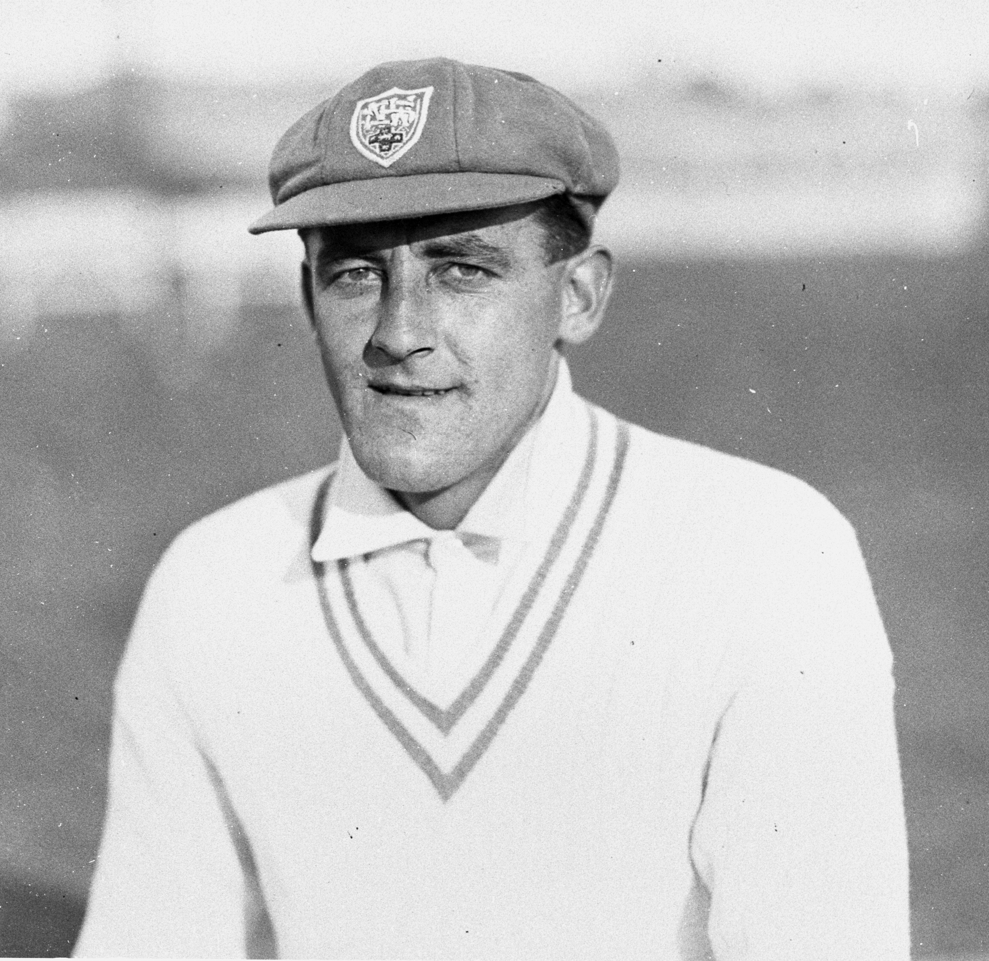 Test cricket at Sydney Cricket Ground: portrait of Alan Fairfax (1906–1955) This image is of Australian origin and is now in the public domain because its term of copyright has expired. According to the Australian Copyright Council (ACC), ACC Information Sheet G023v17 (Duration of copyright) (August 2014).3 Type of materialCopyright has expired if … A Photographs or other works published anonymously, under a pseudonym or the creator is unknown:taken or published prior to 1 January 1955BPhotographs (except A):taken prior to 1 January 1955CArtistic works (except A & B):the creator died before 1 January 1955DPublished editions1 (except A & B):first published more than 25 years agoECommonwealth, State or Territory owned2 photographs and engravings:taken or published more than 50 years ago 1 means the typographical arrangement and layout of a published work. eg. newsprint. 2 owned means where a government is the copyright owner as well as would have owned copyright but reached some other agreement with the creator. 3 Copyright Amendment (Disability Access and Other Measures) Bill 2017 (Australian Government) When using this template, please provide information of where the image was first published and who created it.